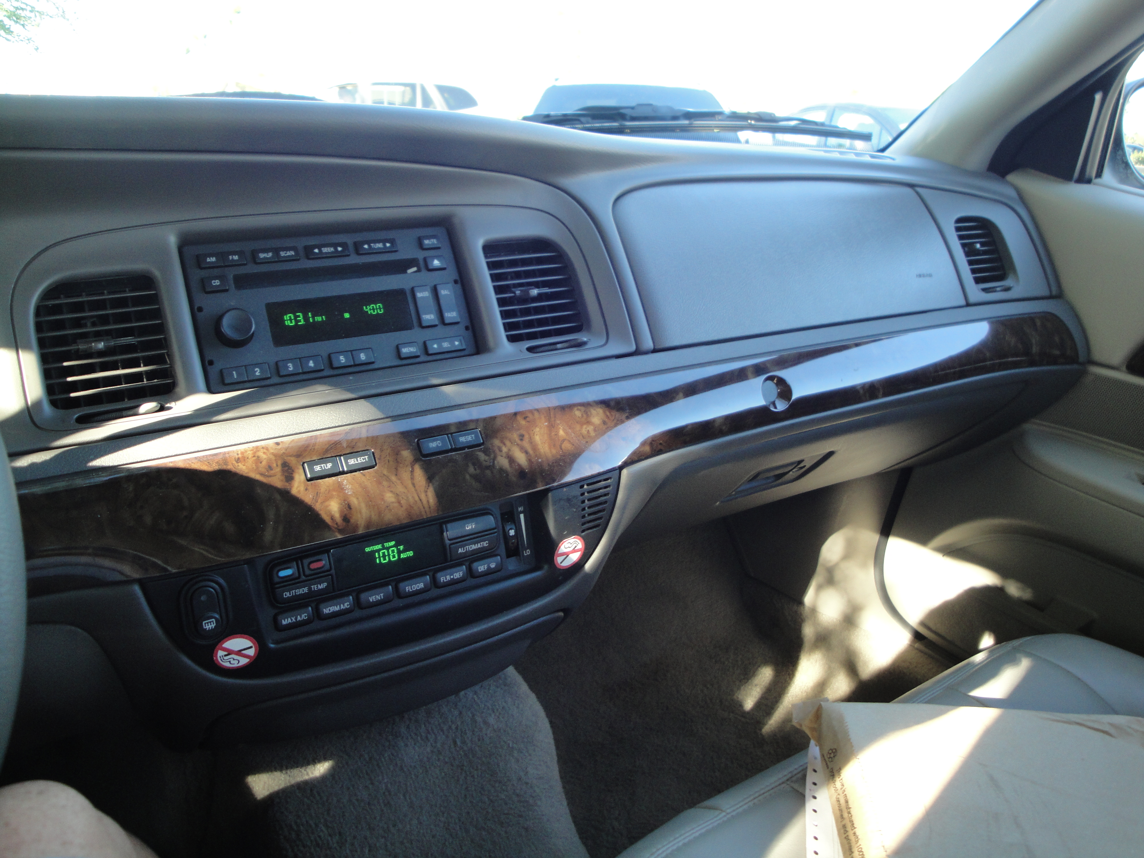 Ulitmate Edition